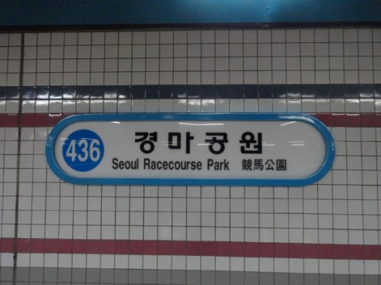 Seoul Racecourse Park Station Sign